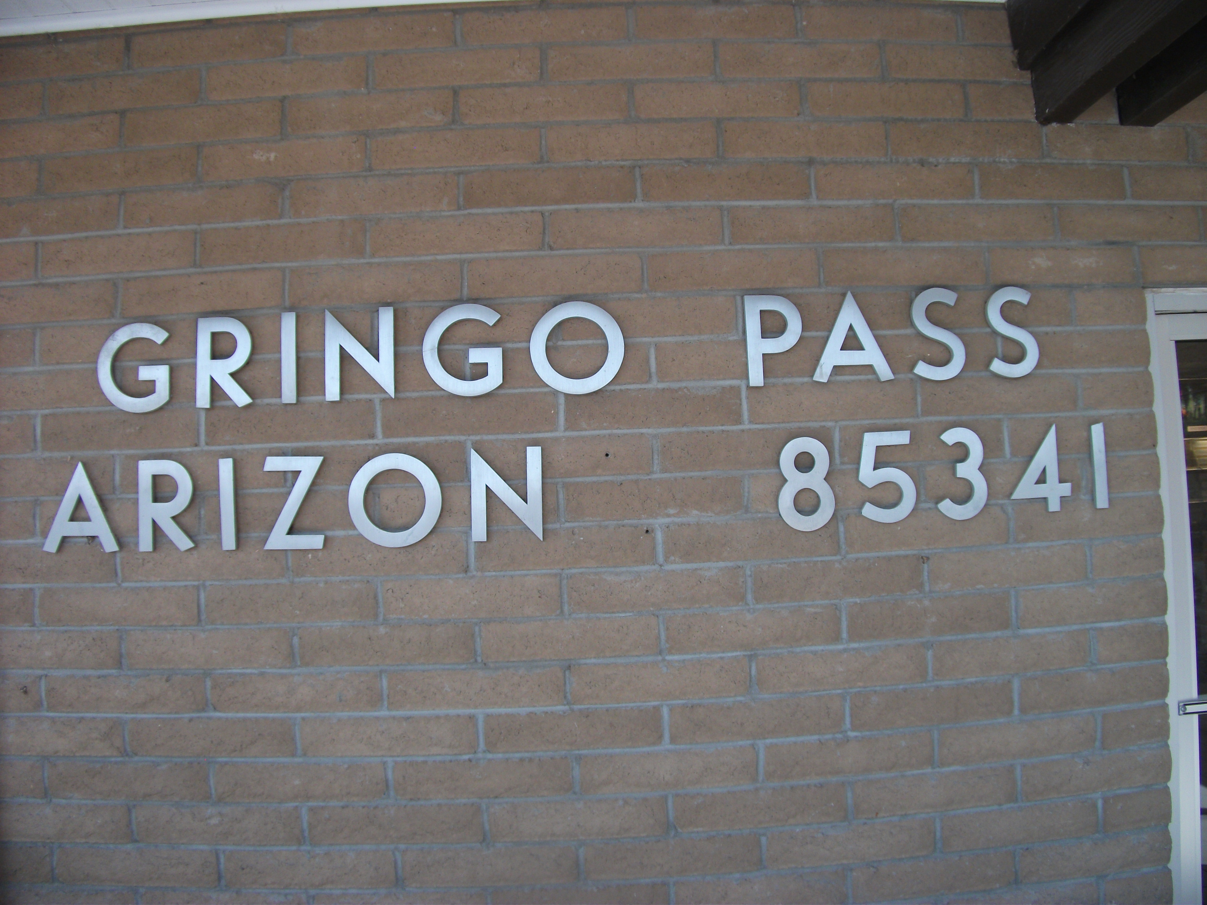 The wall of a United States Post Office building in Lukeville, Arizona.